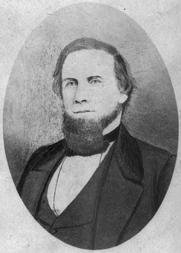 Albert Rust (Arkansas Congressman)